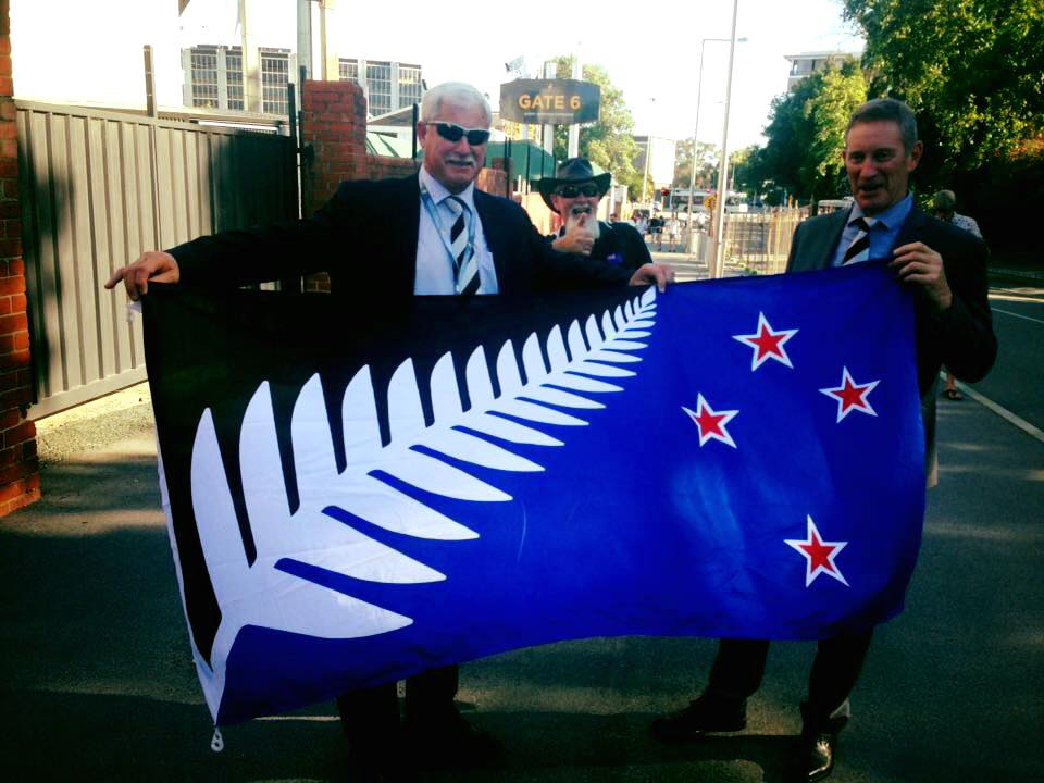 Sir Richard Hadlee and Lockwood silver fern flag, Sir Richard (wearing lanyard) is assisted in holding up the flag whilst an onlooker gives the thumbs up.